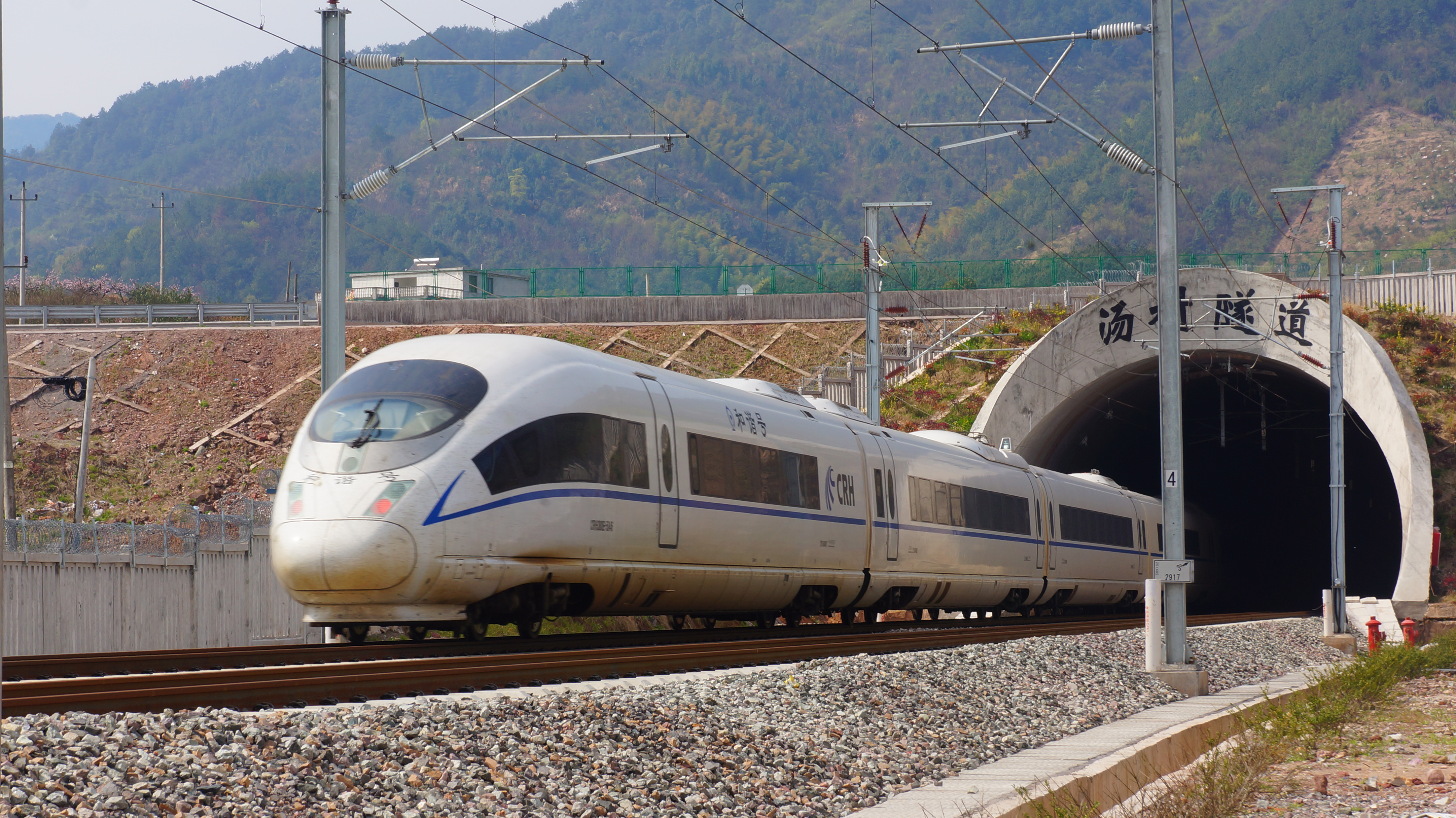 201603 A CRH380B enters into Tangcun Tunnel